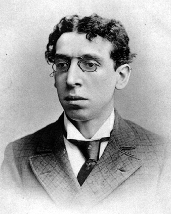 Israel Zangwill